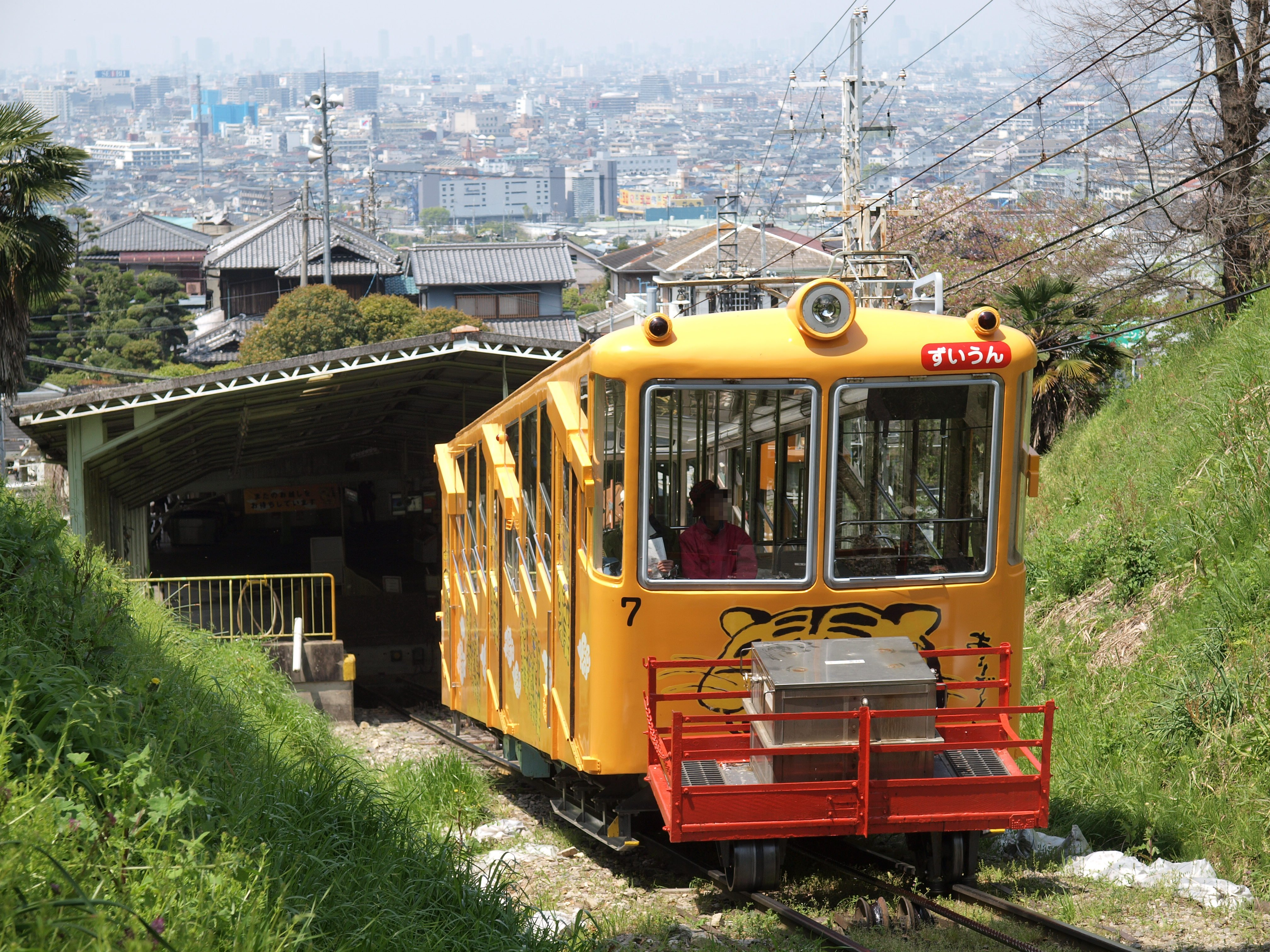 Kintetsu Nishi-Shigi Cable Line Zuiun